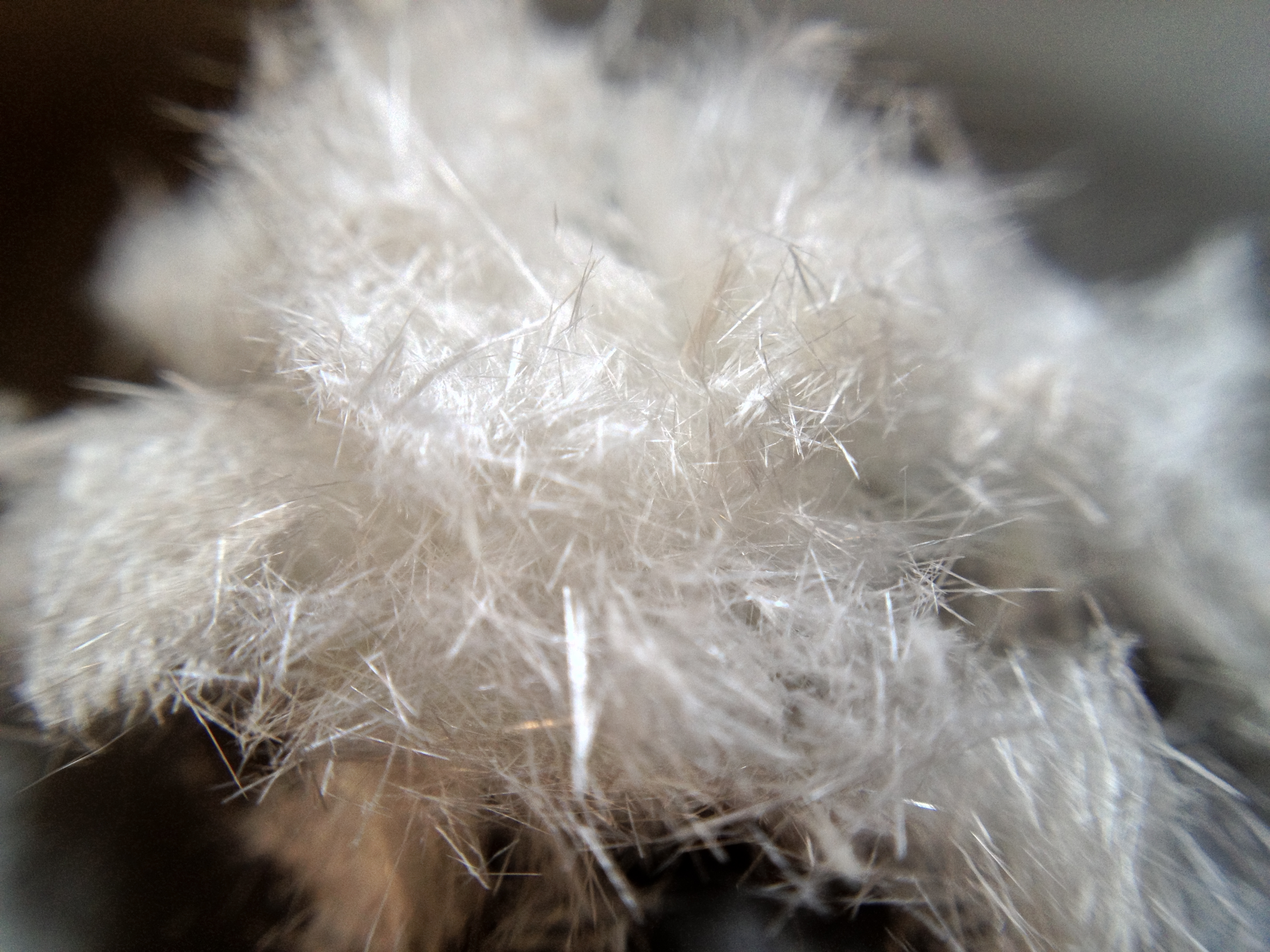 Cyclam, or 1,4,8,11-tetraazacyclotetradecane, (NHCH2CH2NHCH2CH2CH2)2, with the needle-like appearance characteristic of the compound. The compound was synthesised by following the procedure from Inorganic syntheses (ed. Fred Basolo), vol. XVI, pp. 222-25. McGraw-Hill 1976; the raw product was recrystallised from chloroform and chlorobenzene twice. Photographed on October 22nd, 2015, at the University of Copenhagen, Department of Chemistry (Kemisk Institut).